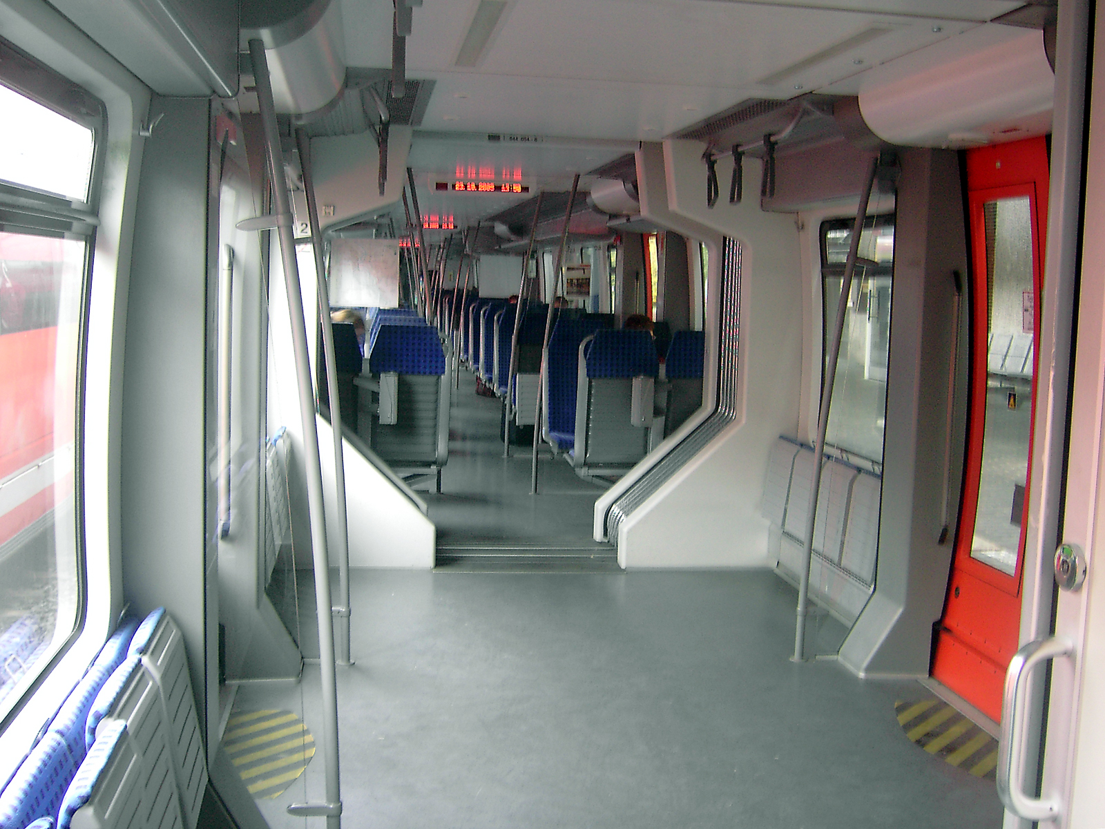 Interior of a DB Talent Class 644 DMU